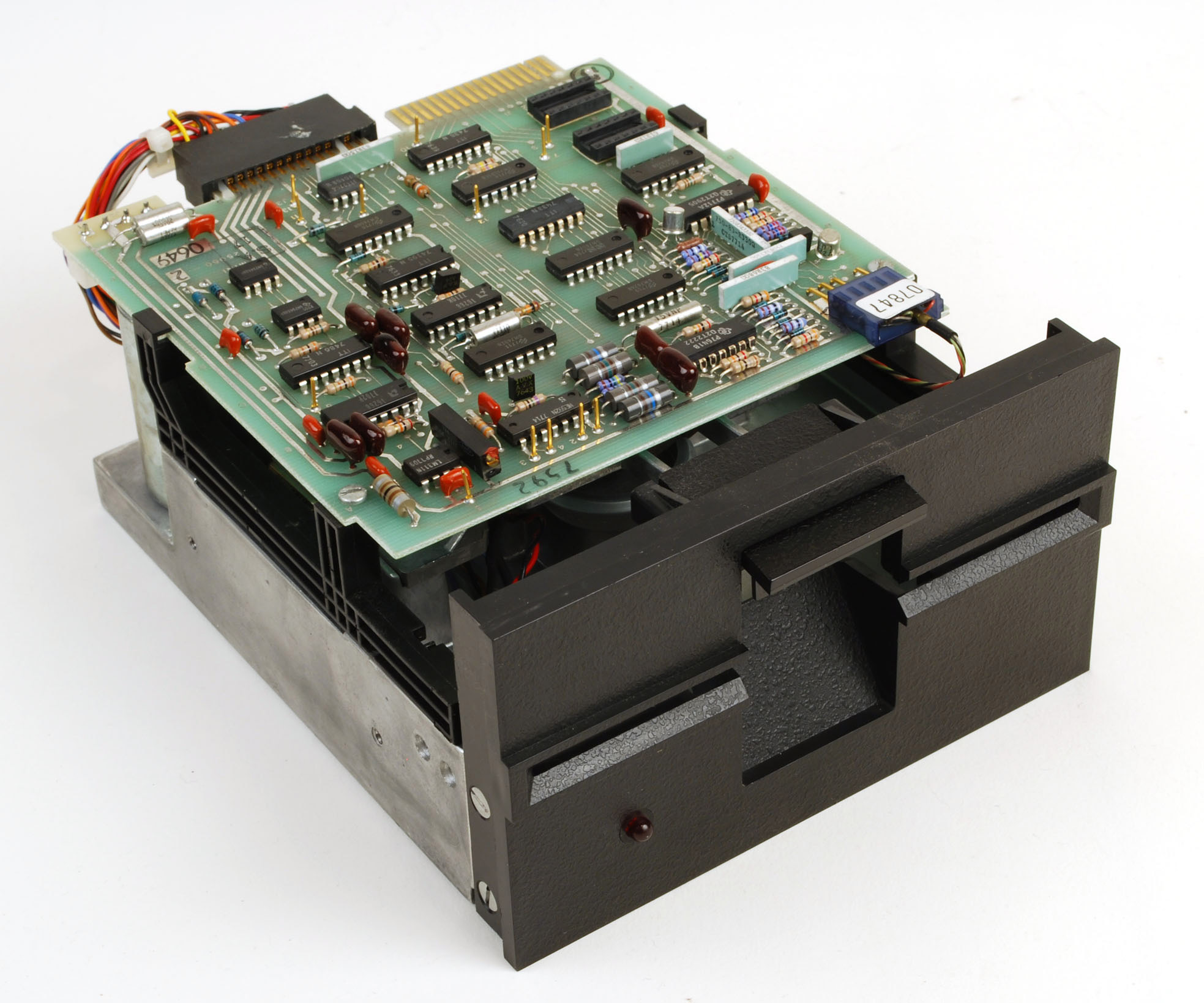 Shugart SA-400 Minifloppy was the first 5.25 inch floppy disk drive and each diskette would hold 89,600 bytes of data. It was introduced by Shugart Associates of Sunnyvale, California on August 27, 1976 and a single drive cost $390. The 4-pin power connector and 34-pin signal interface became the industry standard for several generations of disk drives. The 5.75 inch wide form factor is still a standard size for computer peripherals. Width = 5.75 in. (146.1 mm) Height = 3.25 in. (82.6 mm) Depth = 8.0 in. (203.2 mm) Weight = 3 lbs. (1.36 KG) Power = 12V @ 1.1A, 5V @ 0.5A Photo by Michael Holley, October 2008. Taken with a Nikon D60 DSLR using tungsten lighting. Edited with Adobe Photoshop Elements 5.0.